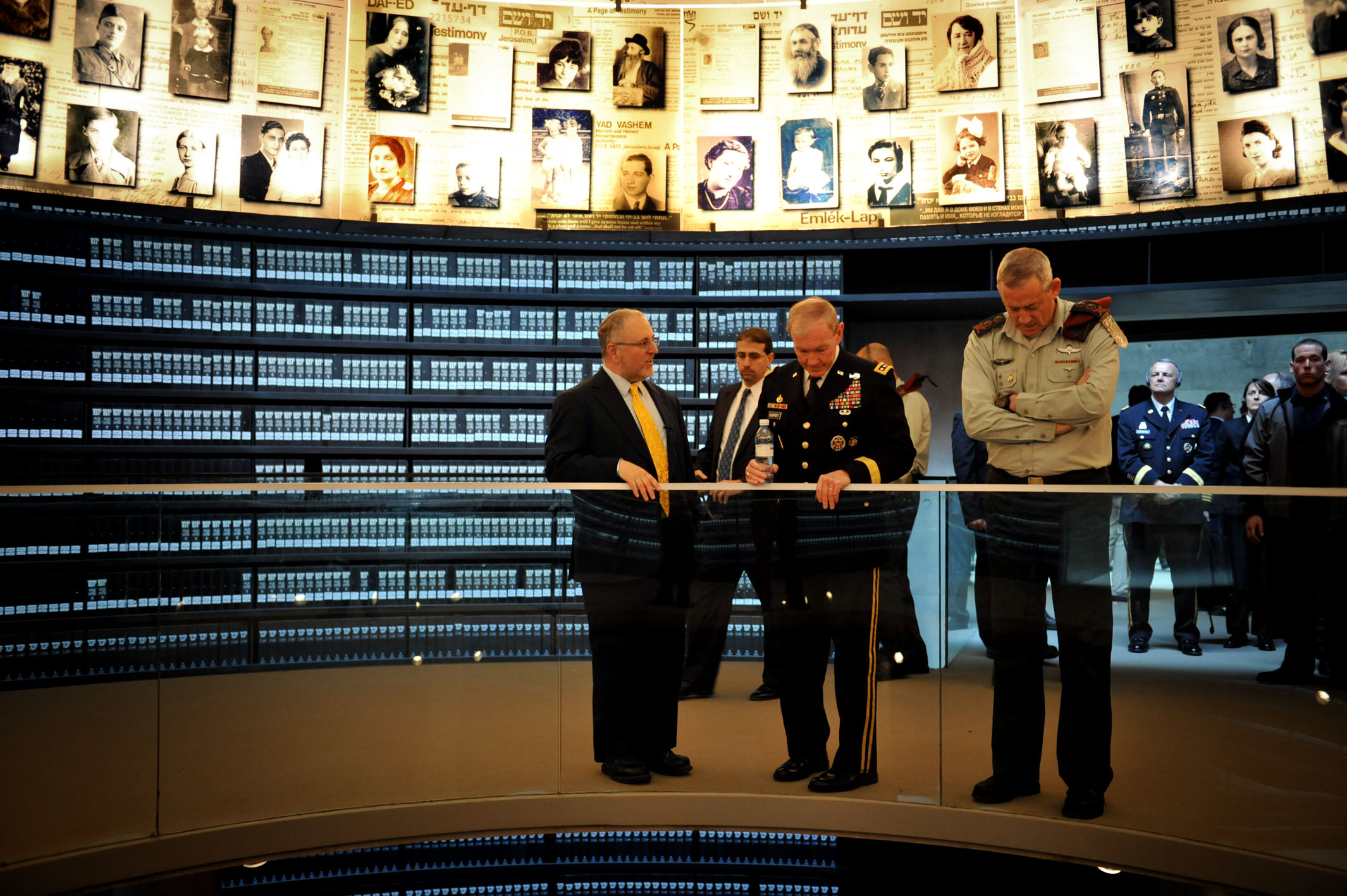 January 20, 2012 The Chairman of the Joint Chiefs of Staff of the United States Military, General (****) Martin E. Dempsey, arrived yesterday, for a short visit in Israel as part of a visit to the region. During his visit, General Dempsey held a private meeting with Lt. Gen. Gantz, as well as a briefing with senior commanders of the General Staff, focusing on cooperation between the two militaries, as well as mutual security challenges. General Dempsey was greeted at the IDF General Headquarters in Camp Rabin (Kirya), by an IDF honor guard. Pictured above is General Dempsey's visit at the Yad VaShem Holocaust Memorial Museum, where he paid respect to the memory of Holocaust victims. For more information: Four-Star General Martin E. Dempsey to Visit Israel Photos by Sgt. Ori Shifrin, IDF Spokesperson Unit. The Israel Defense Forces Facebook The Israel Defense Forces blog Follow us on Twitter